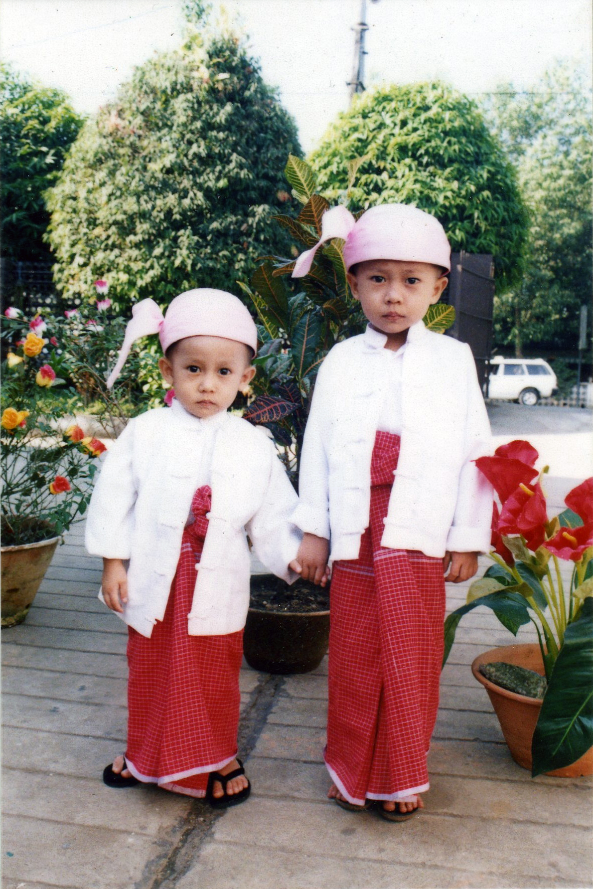 Mon boys in traditional Mon costume